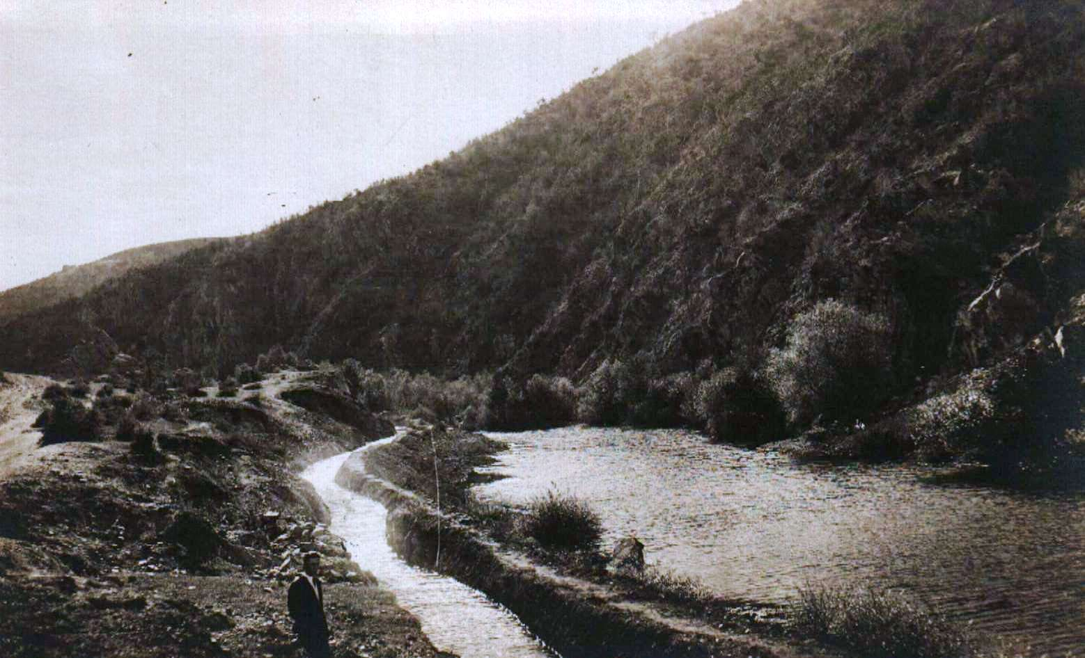 Harmanli, Bulgaria